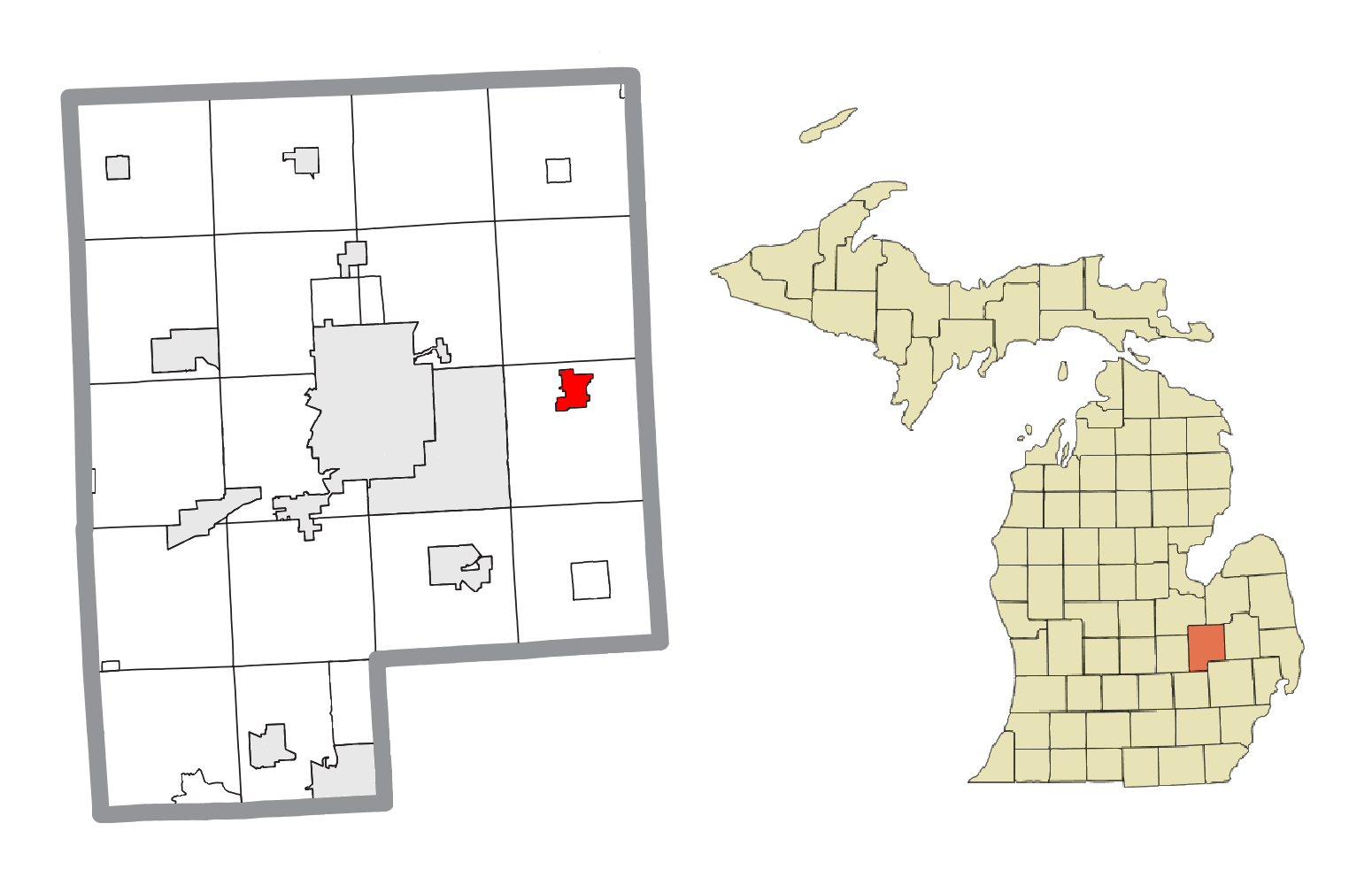 Davison, MI